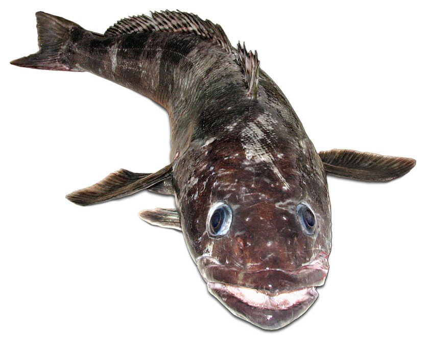 Dissostichus mawsoni Norman, 1937, 87 cm TL, 77 cm SL, Ross Sea, 20 December 2009, depth 1450 m